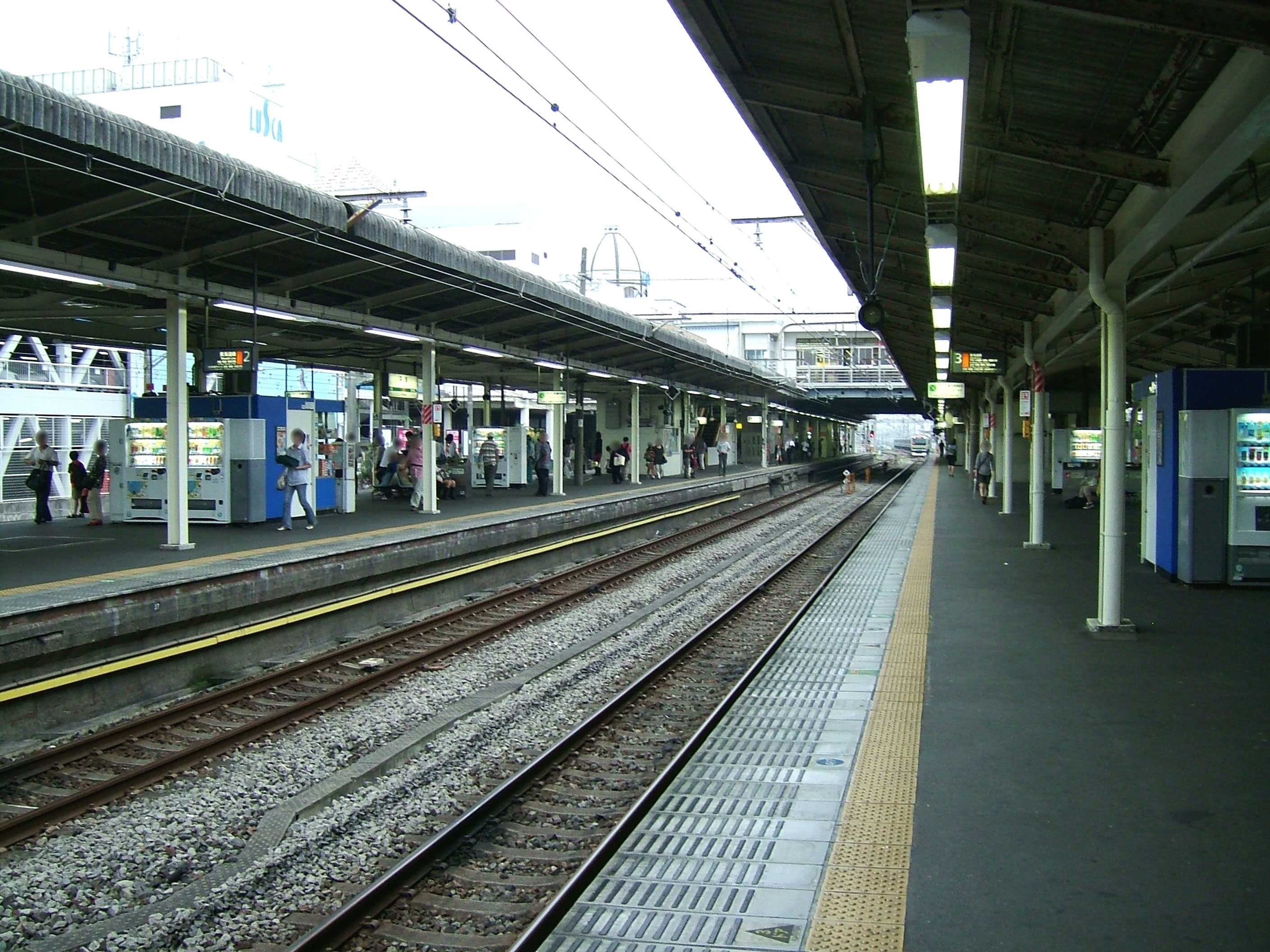 Hiratsuka Station platform (East Japan Railway Tōkaidō Main Line)